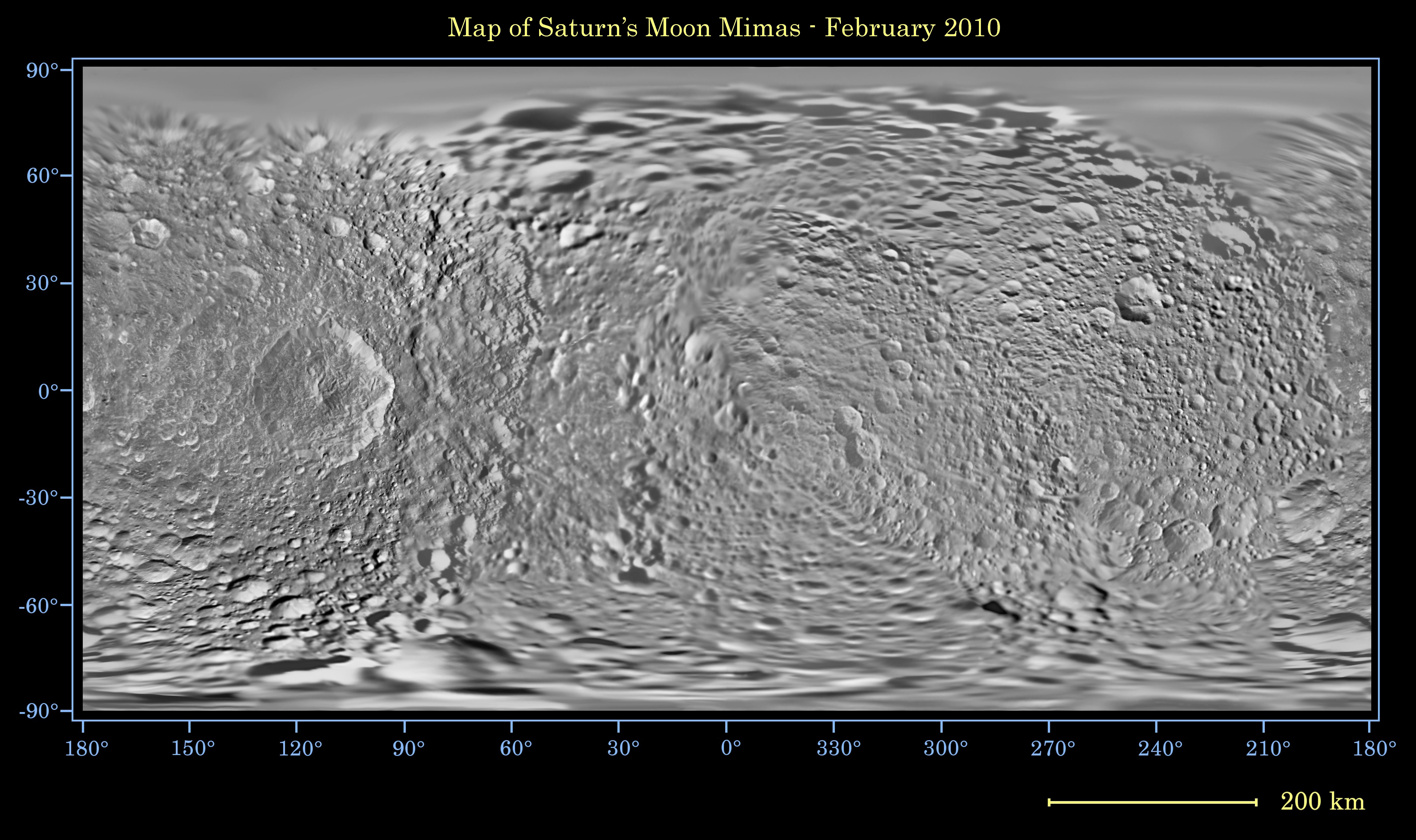 This global map of Saturn's moon Mimas was created using images taken during Cassini spacecraft flybys, with Voyager images filling in the gaps in Cassini's coverage. The moon's large, distinguishing crater, Herschel, is seen on the map at left. The map is an equidistant (simple cylindrical) projection and has a scale of 216 meters (710 feet) per pixel at the equator. The mean radius of Mimas used for projection of this map is 198.2 kilometers (123.2 miles). The resolution of the map is 16 pixels per degree. This mosaic map is an update to the version released in June 2008 (See PIA11118).